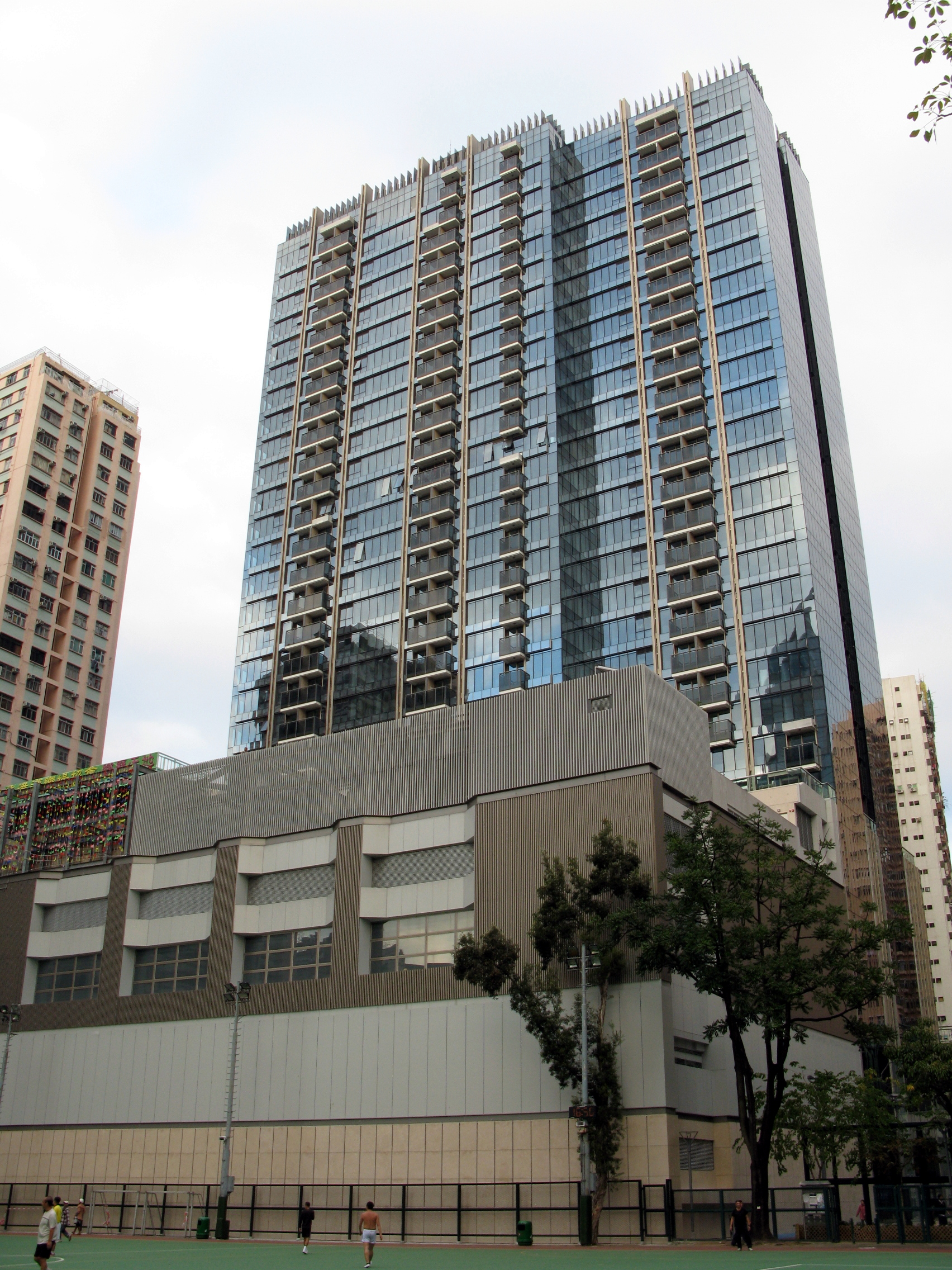 MacPherson Residence 麥花臣匯